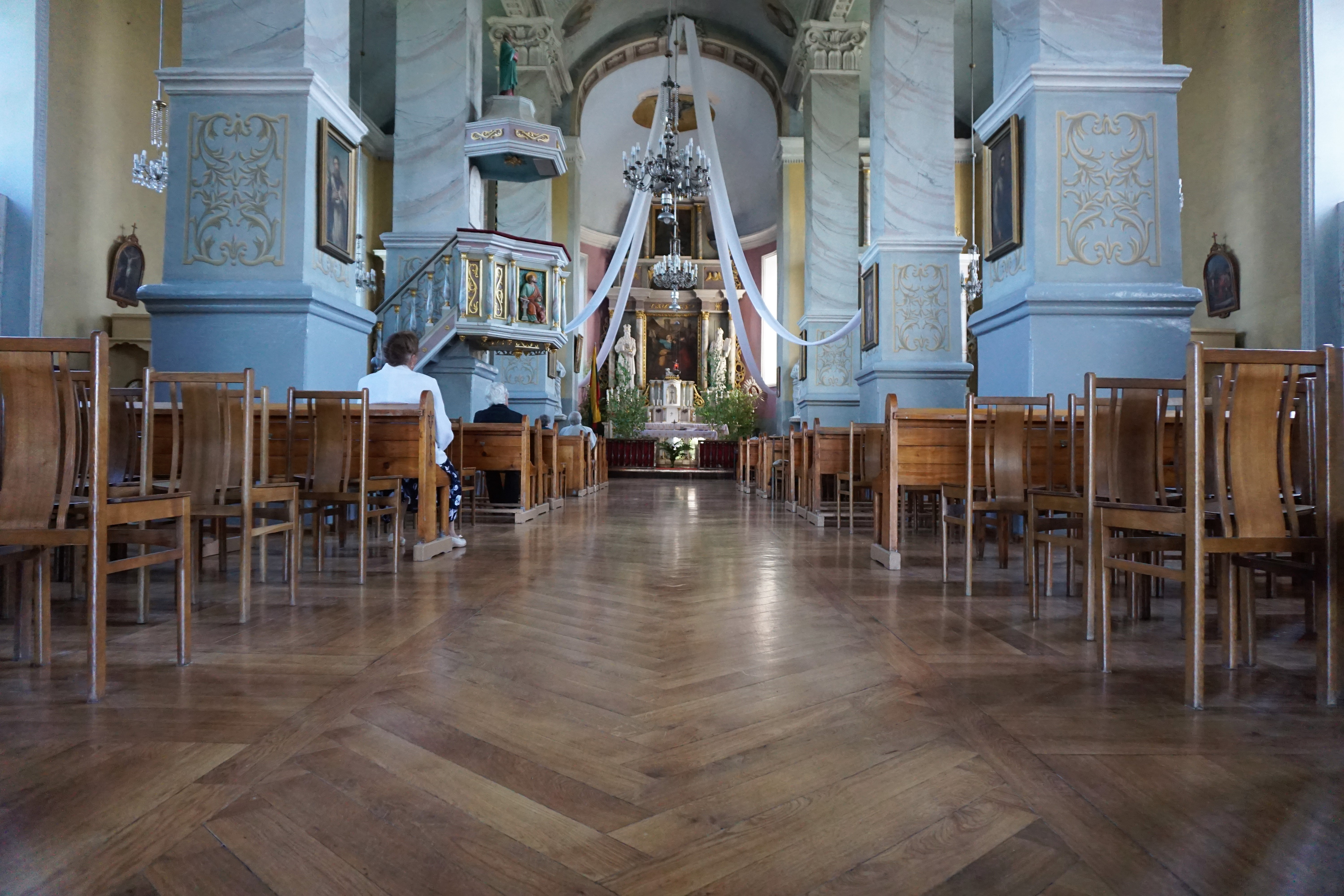 Interior of the Saints Peter and Paul church in Ukmergė